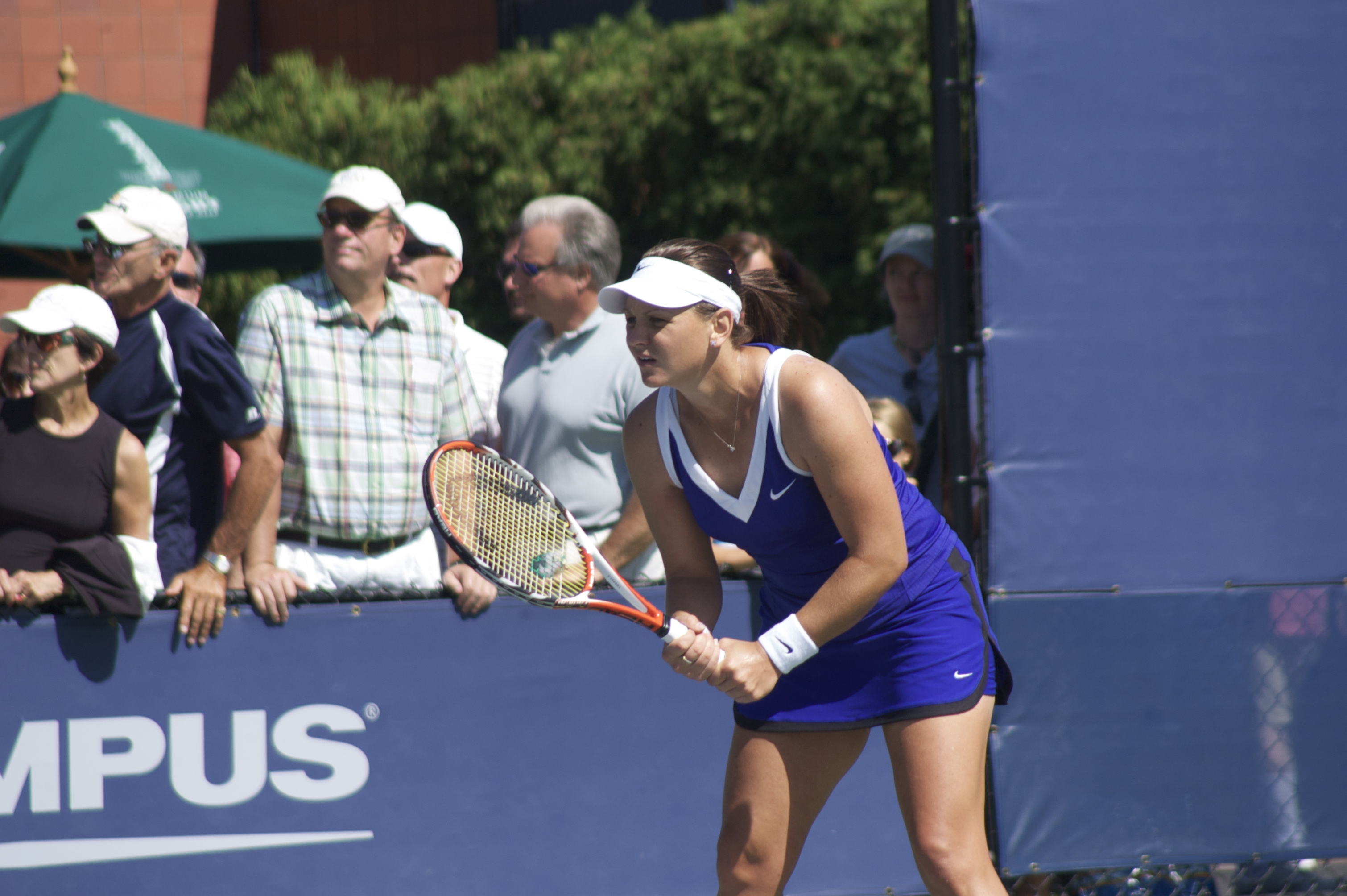 Casey Dellacqua at the 2008 US Open tennis in Flushing, New York